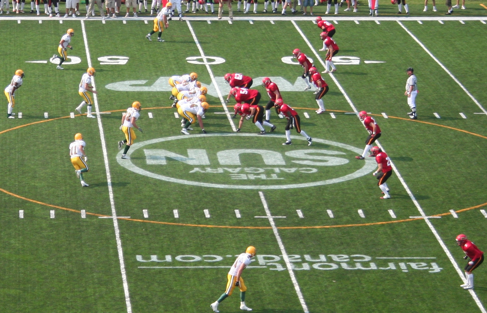 A Canadian football game: University of Alberta Golden Bears at University of Calgary Dinos, McMahon Stadium, Calgary, September 9, 2006.